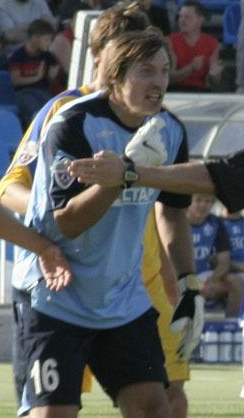 Ilya Blyznyuk in action for FC Rostov